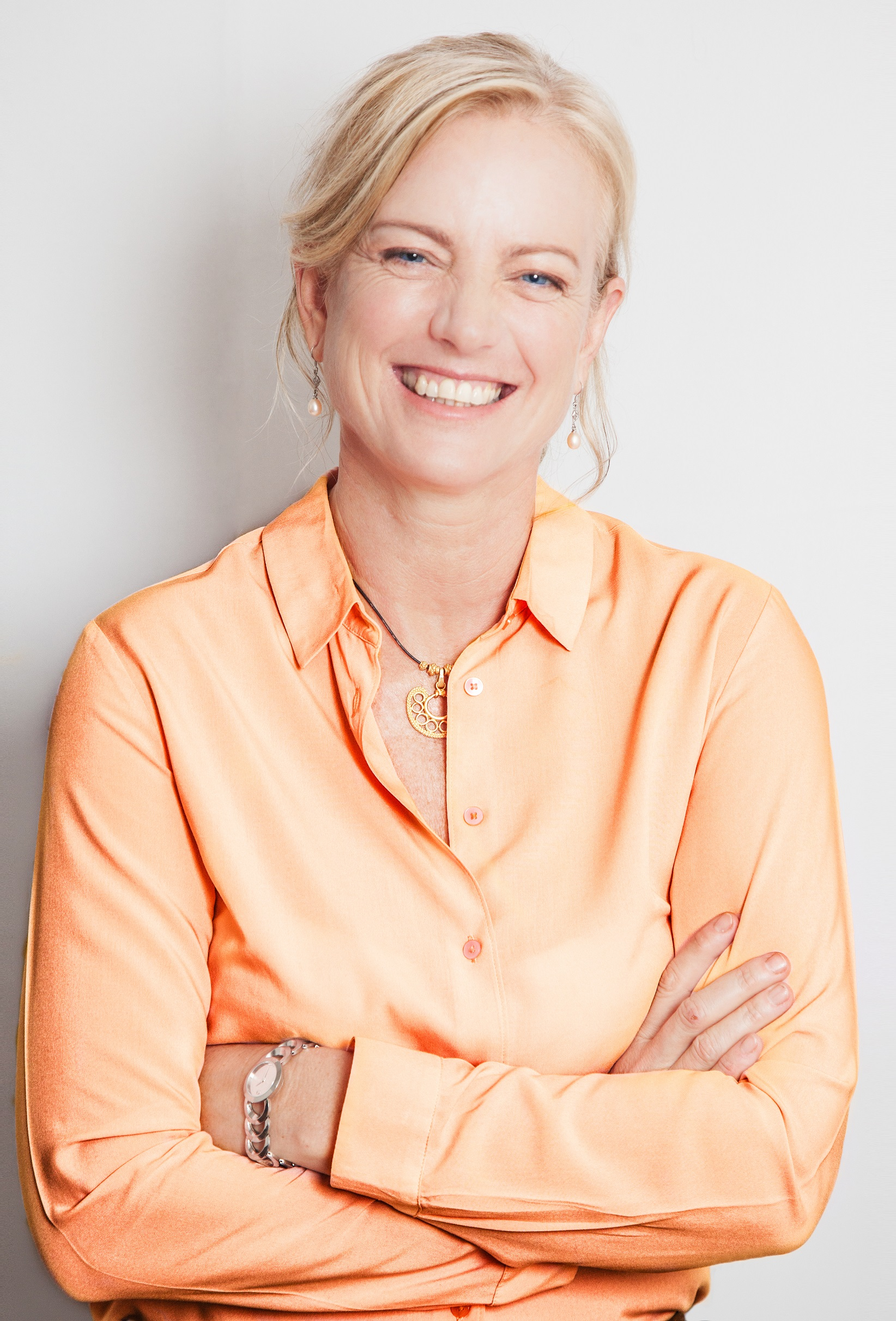 photo